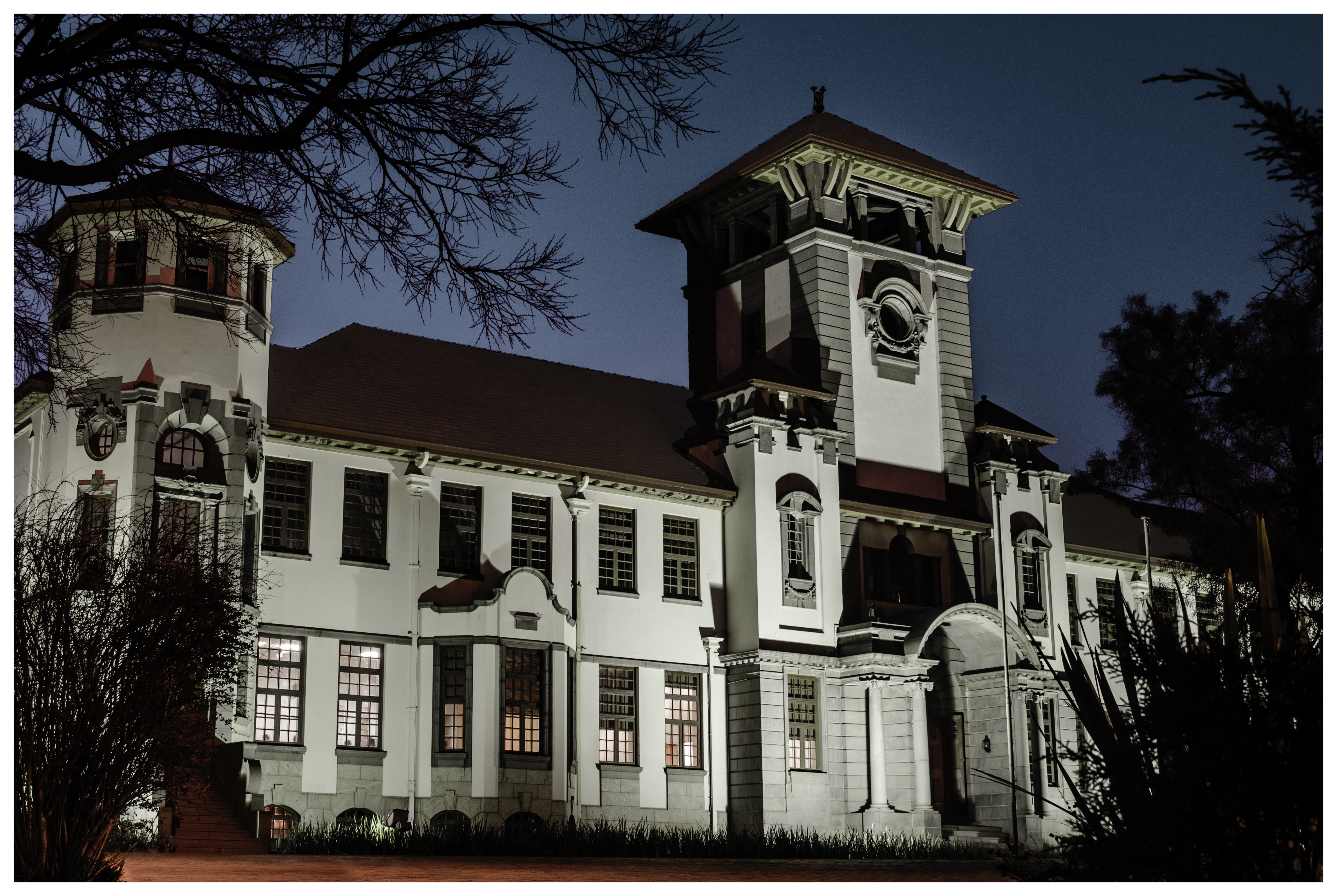 DSC0064editufs Main Building, University of the Orange Free State, Bloemfontein, South-Africa 1 This media shows a South African Protected Site with SAHRA file reference 9/2/302/0064.